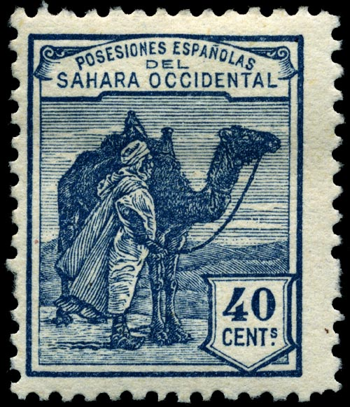 Spanish Sahara 40c stamp of 1924